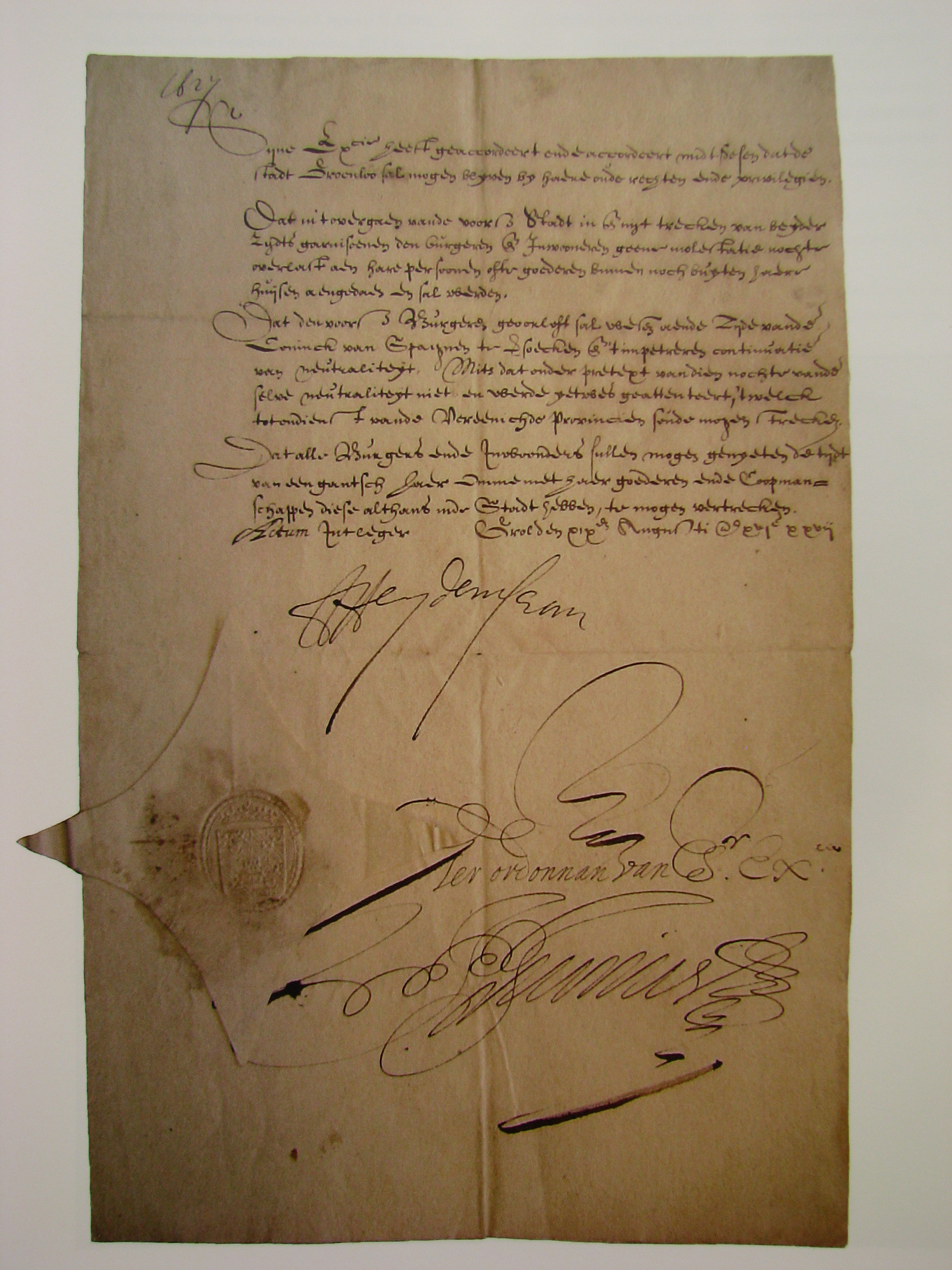 Capitulation agreement, signed after the Siege of Grol (Groenlo) in 1627. Part 3 of 3, meant for the magistrate and citizens of Grol. Signed on august 19, 1627, by Frederick Henry and Constantijn Huygens.